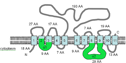 Author: Revel Drummond